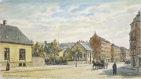 Watercolour of Nordre Frihavnsgade (then Nordre Frihavnsvej) in the Østerbro district of Copenhagen, Denmark